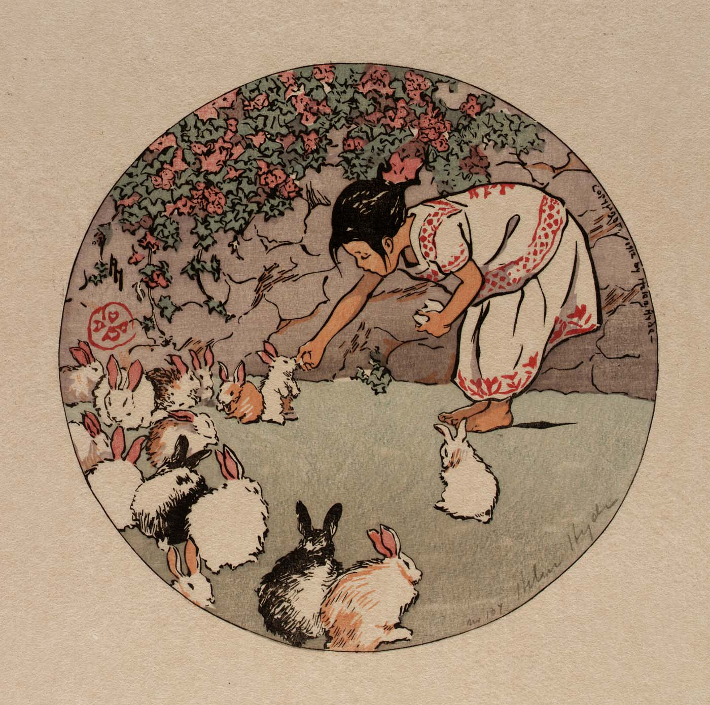 Feeding the bunnies - Helen Hyde